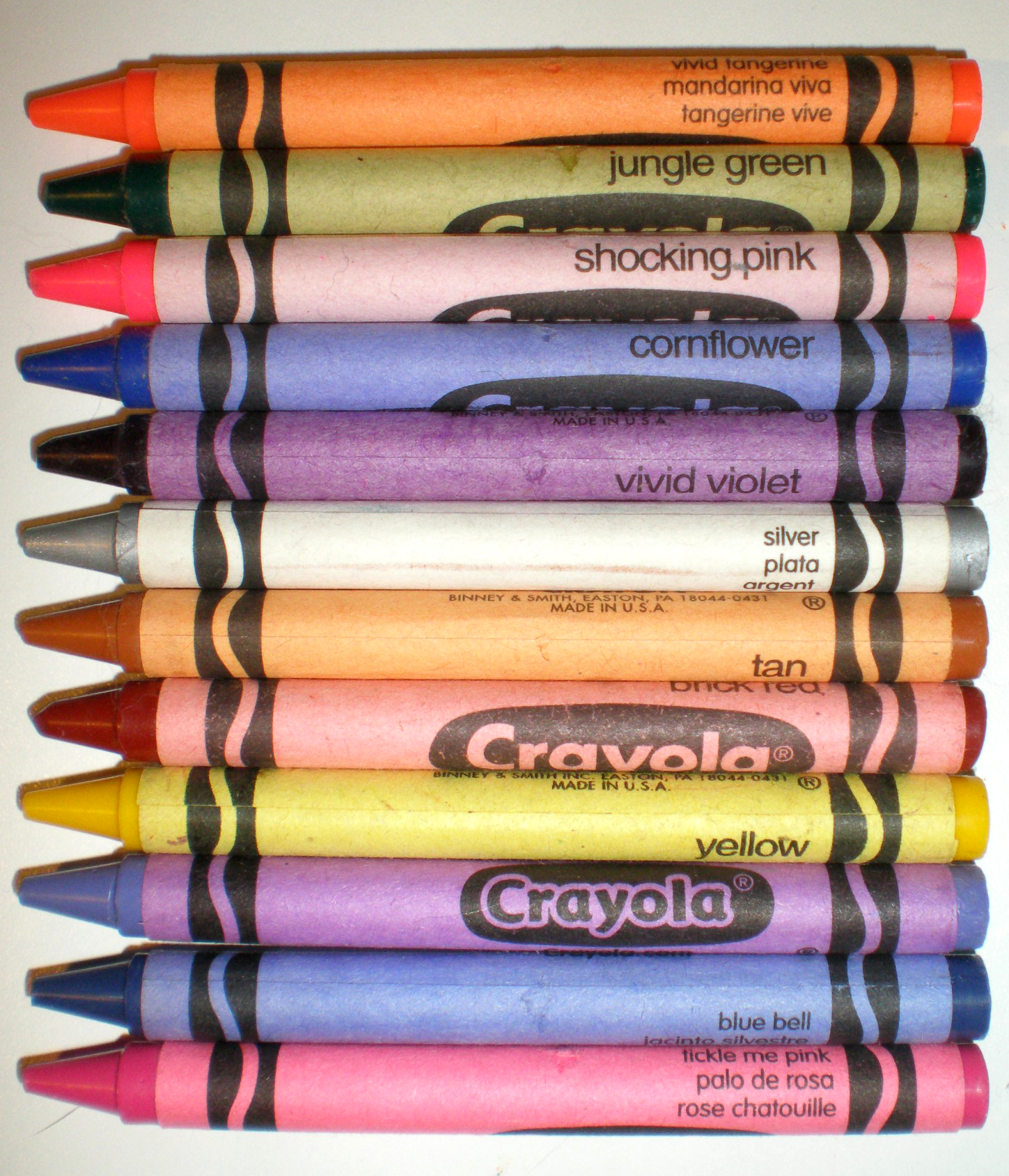 An assortment of Crayola crayons.